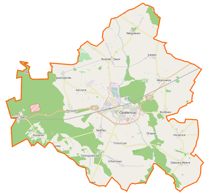 Map of Gmina Opalenica, Poland This map of Opalenica (gmina) was created from OpenStreetMap project data, collected by the community. This map may be incomplete, and may contain errors. Don't rely solely on it for navigation. Border coordinates52.389416.2673←↕→16.518952.2455